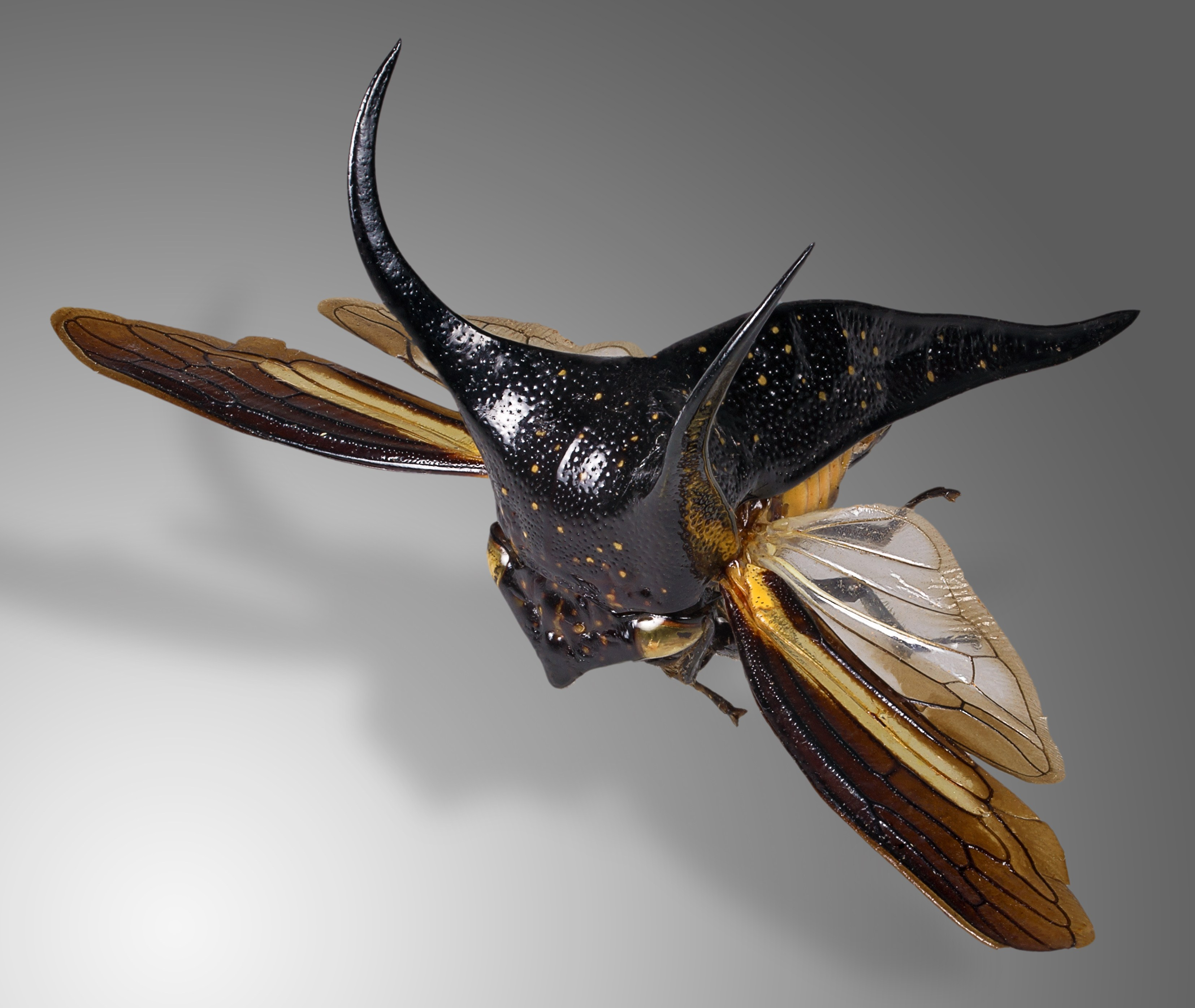 Cutted out of image Hemikypta marginata MHNT vol perspective